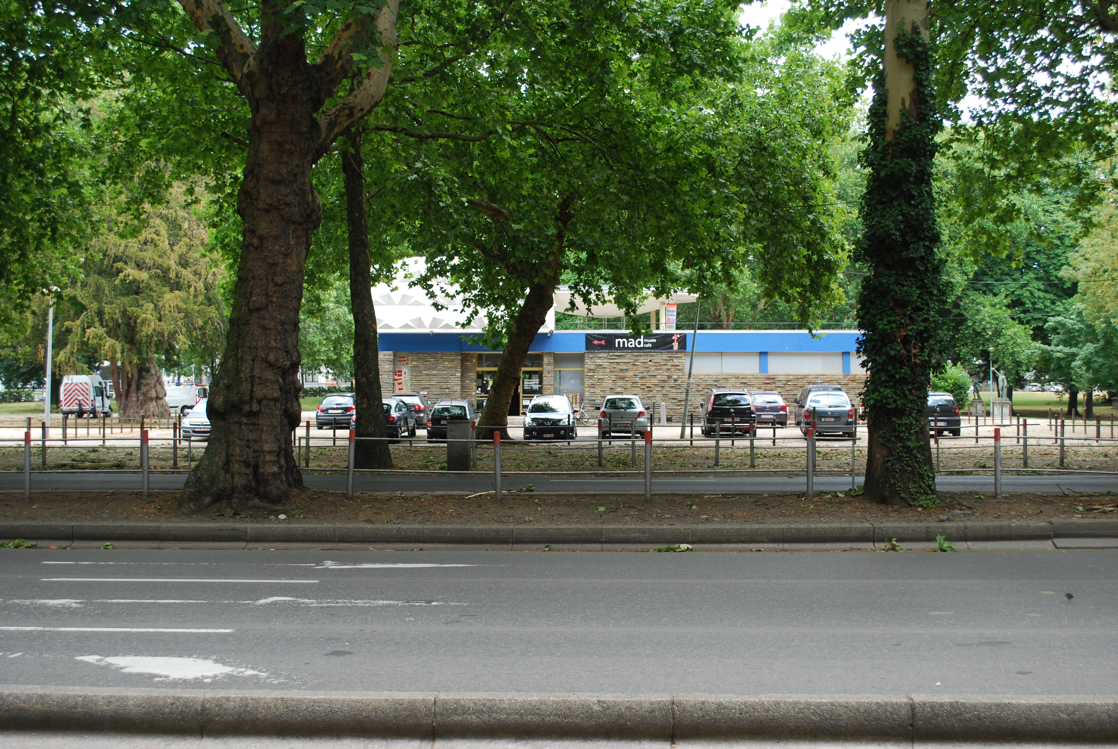 Le MAD Musée (Musée des Arts Différenciés) sur le boulevard d'Avroy à Liège.